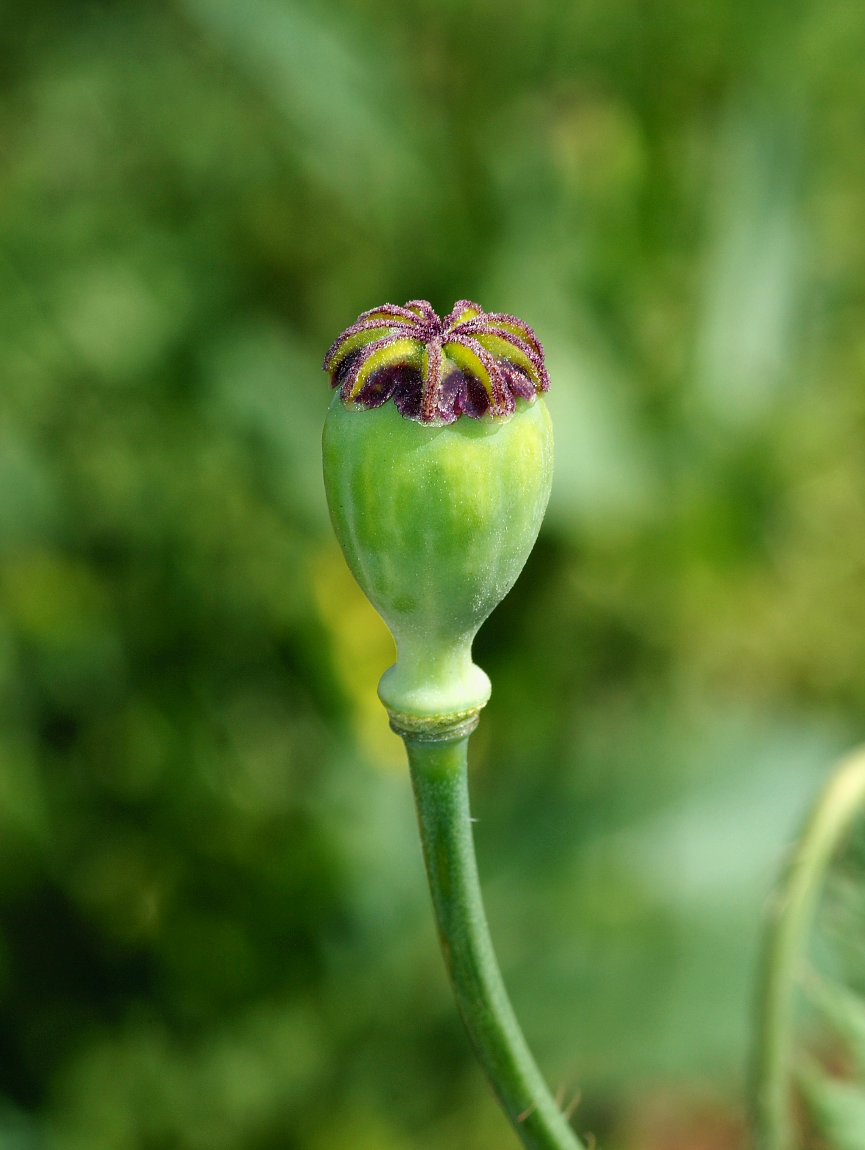 Capsule of a Opium Poppy (Papaver somniferum)